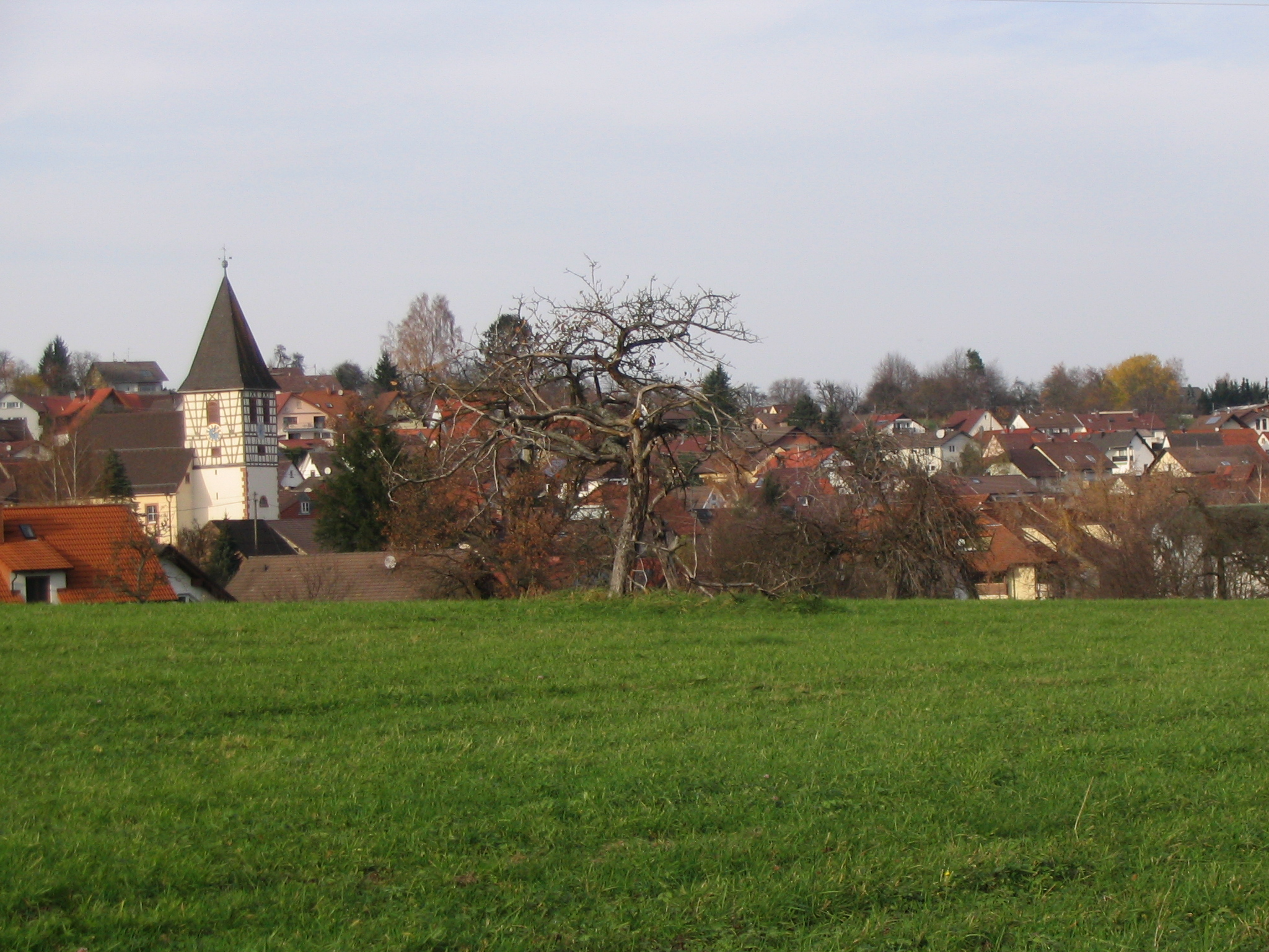 Ittersbach, area of the municipality of Karlsbad (Baden), district Karlsruhe, Baden-Württemberg, Germany